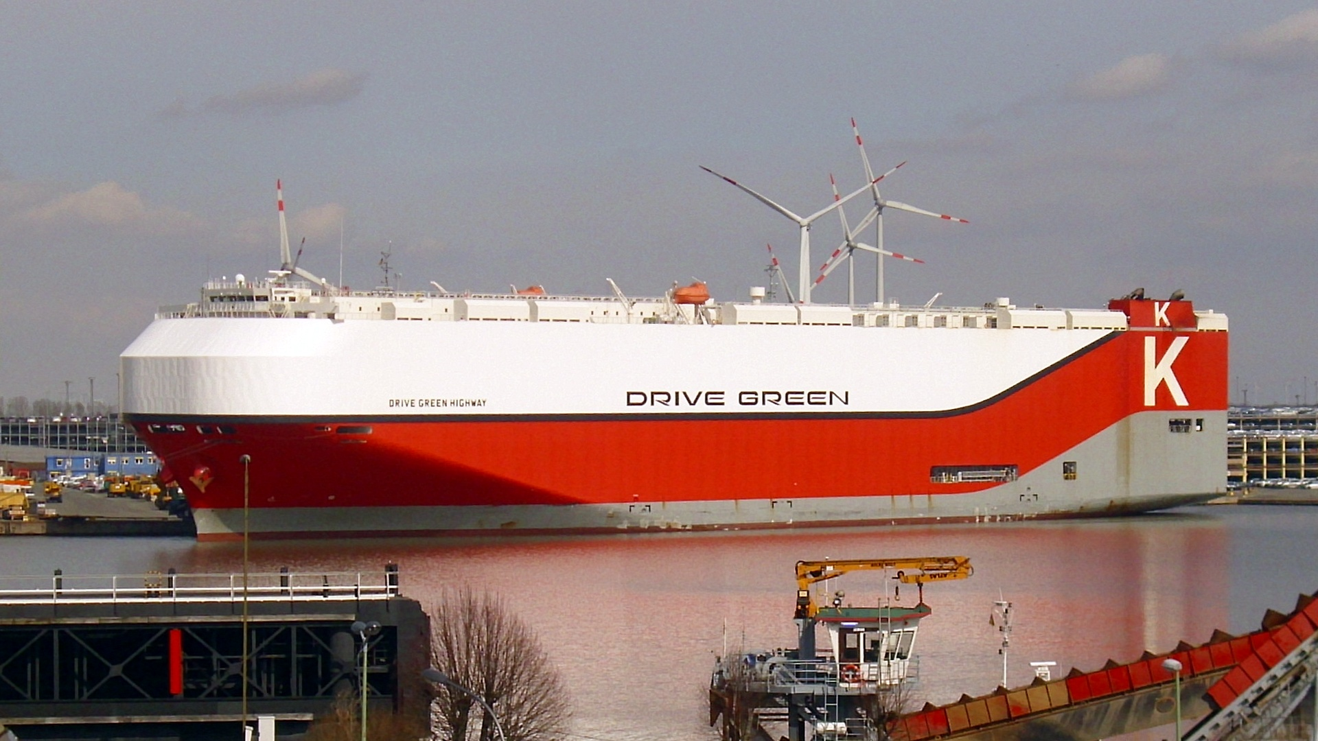 The car carrier Drive Green Highway in the port of Bremerhaven, Germany